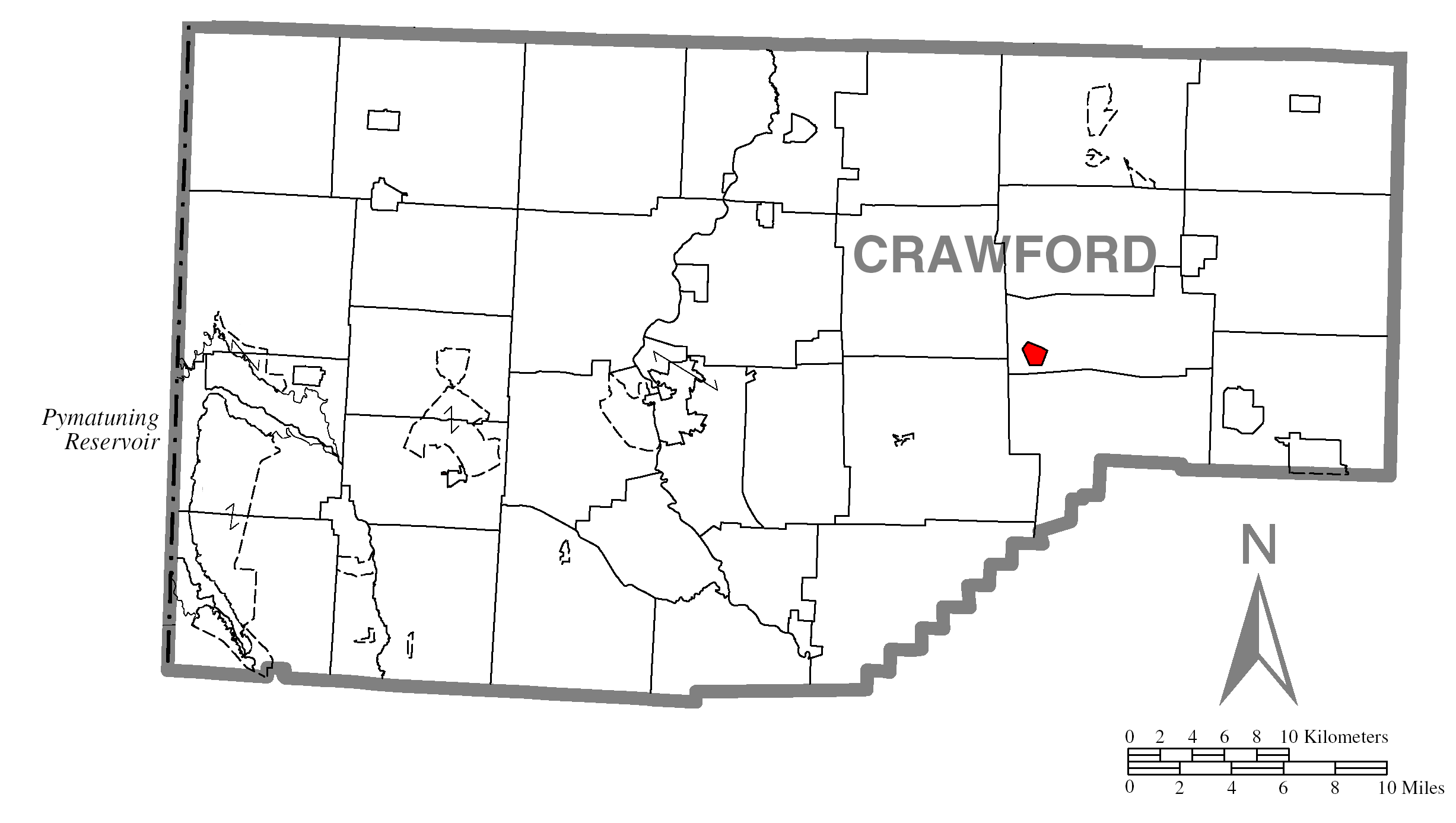 Map of Crawford County higlighting Townville.